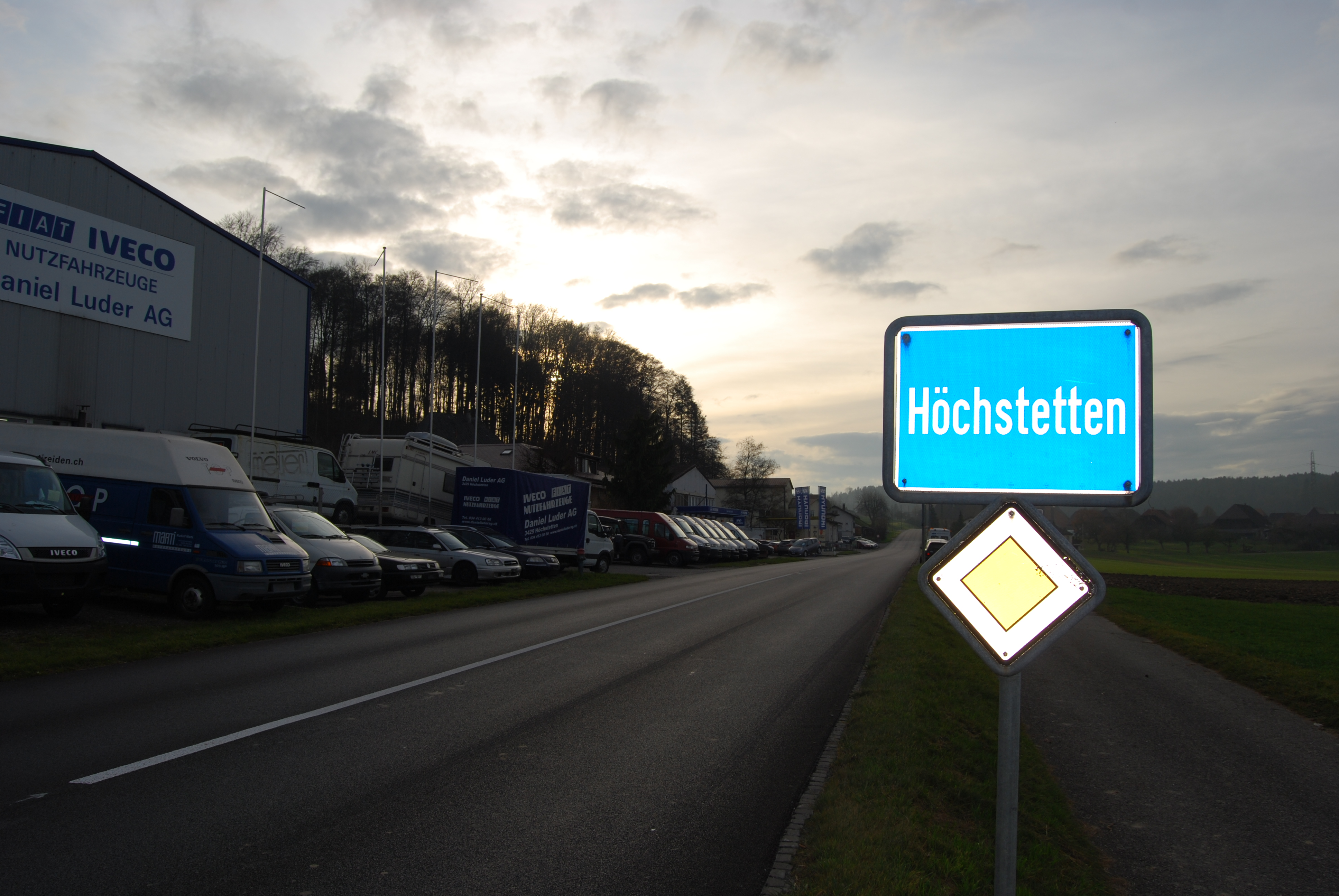 Höchstetten, canton of Bern, SwitzerlandEsperanto: Höchstetten, Kantono Berno, Svislando